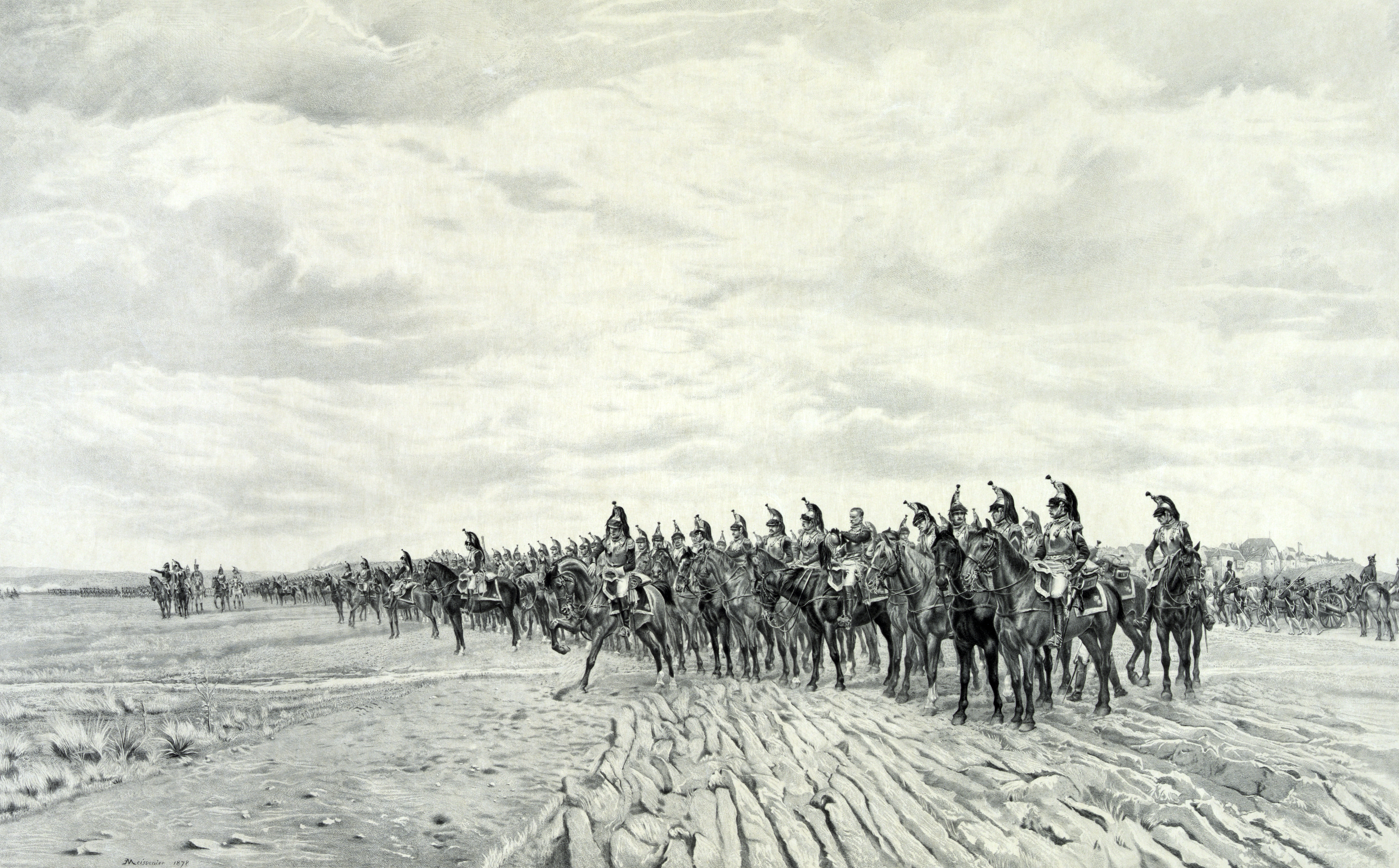 1805 Napoleon at Austerlitz. Print showing long line of French cavalry with artillery moving behind them at Austerlitz. Includes remarque of Napoleon, half-length portrait, facing slightly right.